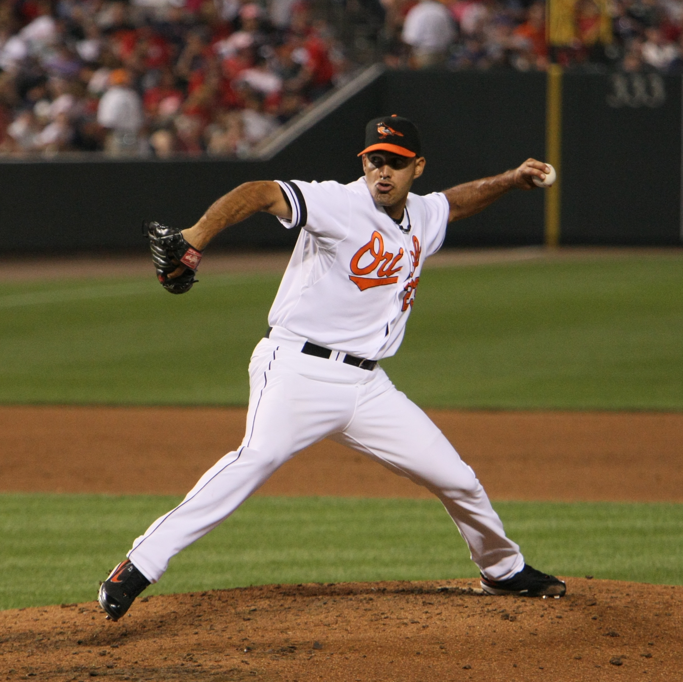 Alberto Castillo pitching in Orioles v/s Red Sox 08/18/08